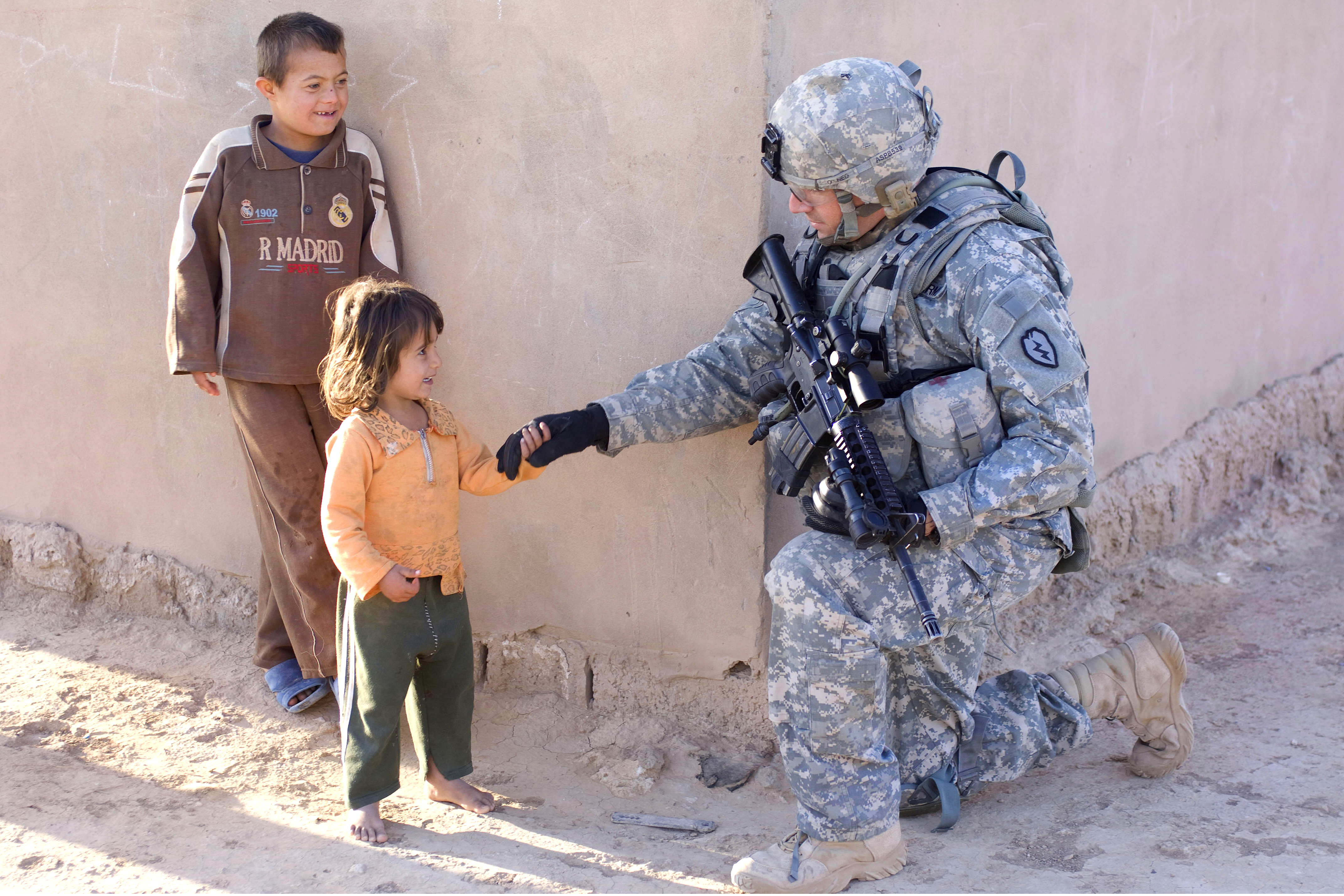 Iraqi children greet U.S. Army Spc. Jeremy Sparks during a clearing operation in Shuzayf, Iraq, March 26, 2009.